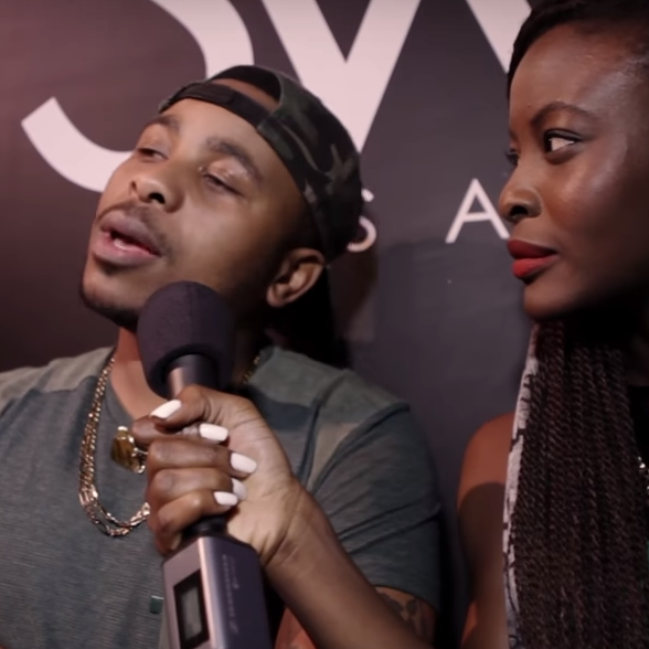 Adeola Ariyo? was interviewed by Folu Storms on NdaniTV in S Africa for the "NEW AFRICA" series